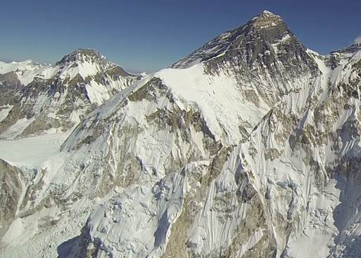 Approaching the Mount Everest (8,848 meters, center). In front is Nuptse (7,861 meters). Cropped to show West Ridge. Bottom left is Ice Fall in Khumbu Glacier below Western Cwm. Above, far left is Lho La with snowfield of Rongbuk Glacier behind (middle left). Everest is top, towards the right with South Col top right. West Ridge extends from Everest to Lho La with West Shoulder prominent at half way. North Col behind West Shoulder with Changtse to the left. Southwest Face of Everest stretching below the summit. Nuptse in foreground (a large area lower right) obscuring Western Cwm.